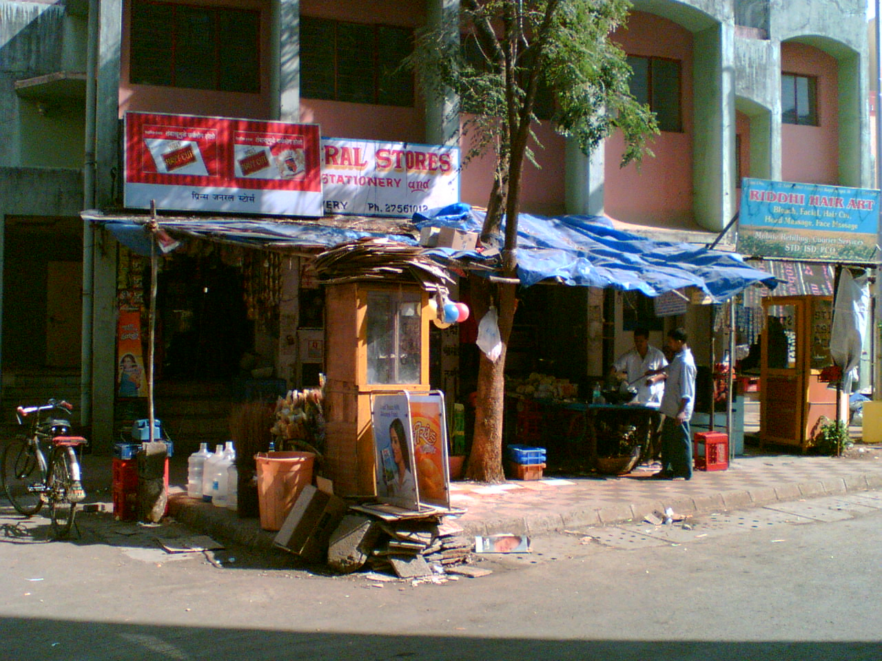 Grocery shop at Community Center